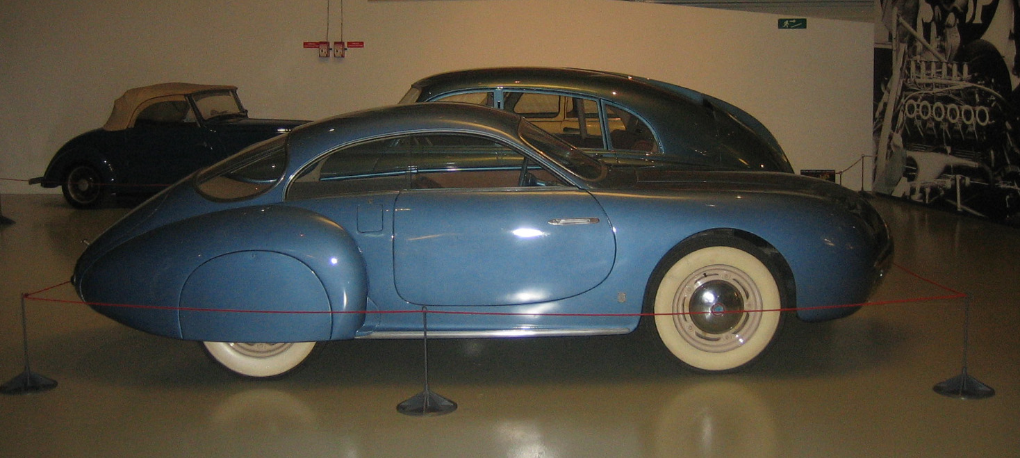 1953 Socéma Grégoire gas turbine-driven prototype.